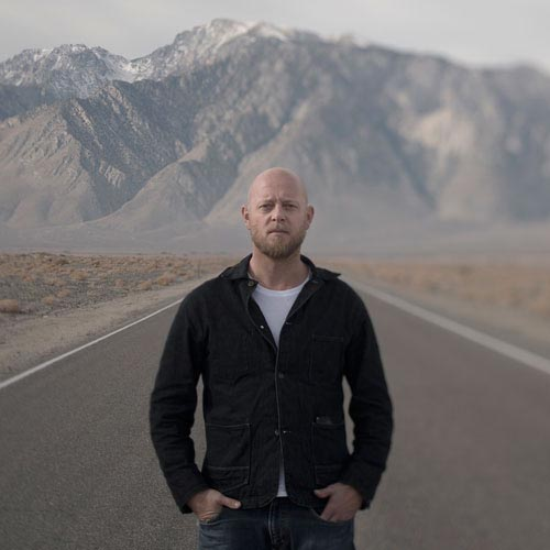 Pieter Ten Hoopen.